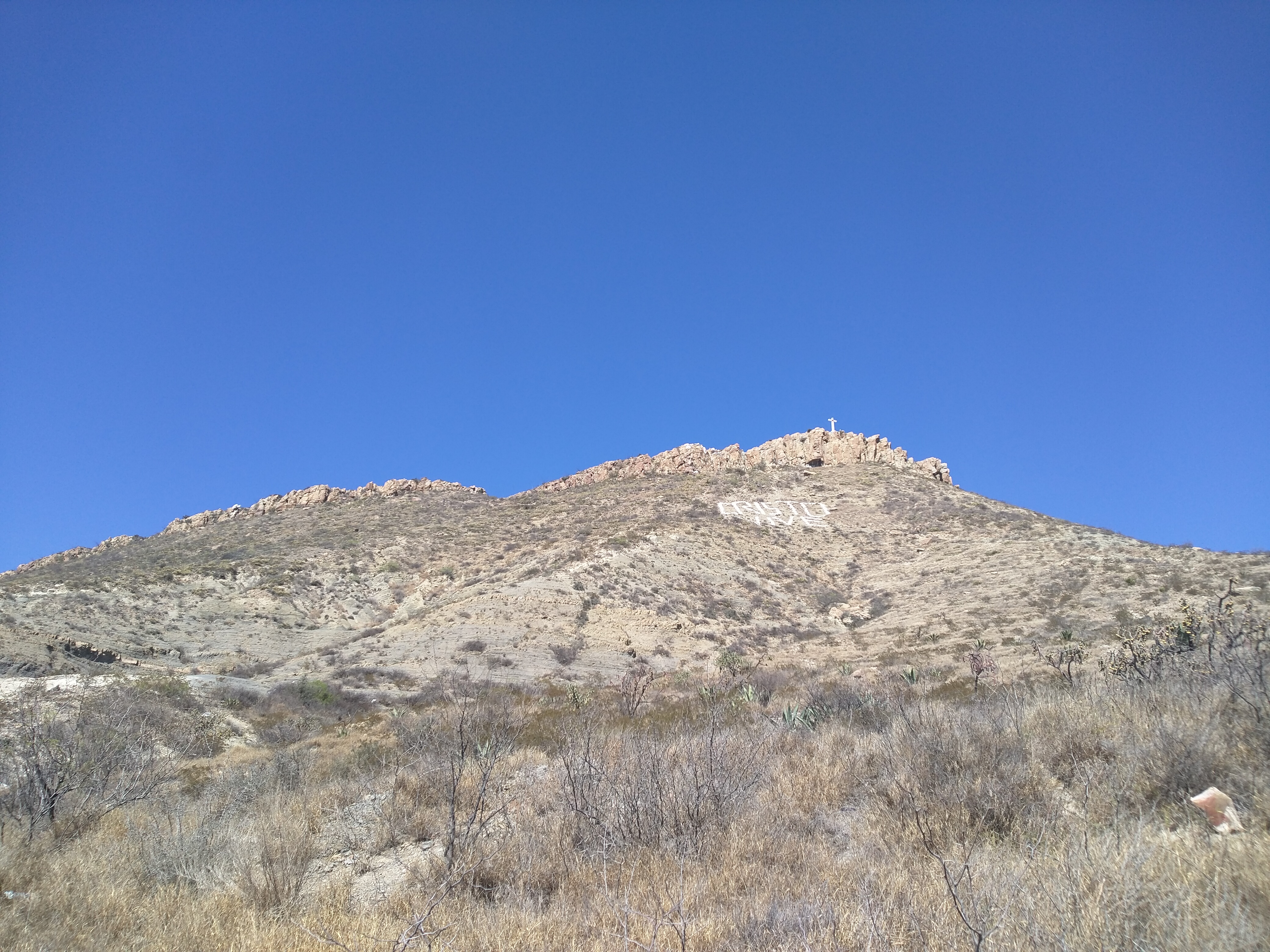 Cerro del Pueblo, located in Saltillo, Coahuila, Mexico.